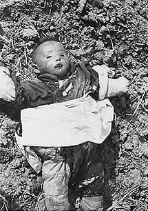 A child killed by Japanese troops in Nanking massacre. Original caption by B. A. Sindberg: "A child also was deliberately shot, its mother was wounded."